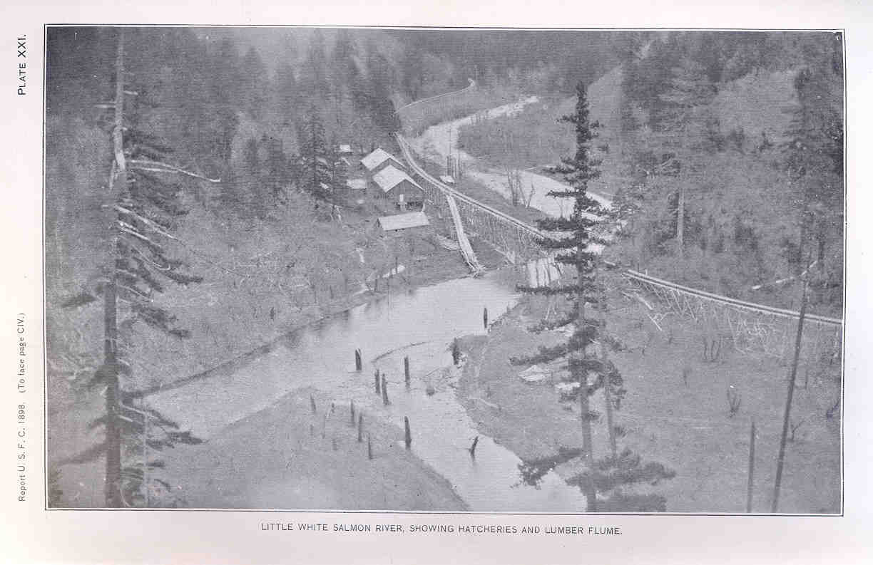 Little White Salmon River Showing Hatcheries and Lumber Flume Subject: Little White Salmon Fish Hatchery, Fish hatcheries, Flumes Geographic Subject: United States--Washington (State)--Cook Tag: Hatcheries